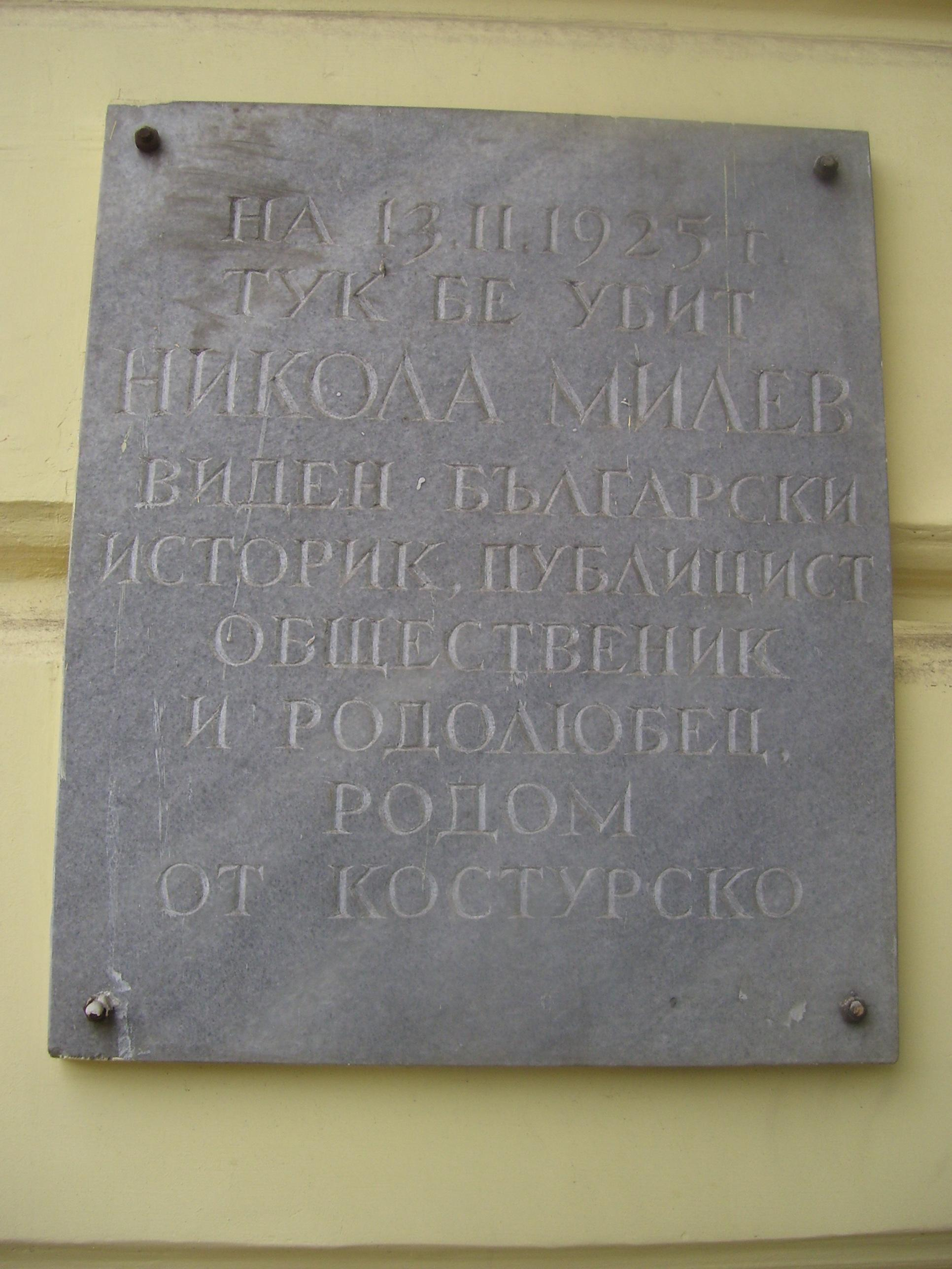 Memorial plaque in Sofia, Bulgaria, at the place where Nikola Milev was killed by communists in 1925. Inscription in Bulgarian: На 13 ІІ 1925 тук бе убит Никола Милев виден български историк, публицист, общественик и родолюбец, родом от Костурско. English translation: On the 13th of February 1925 on this spot was killed Nikola Milev - famous Bulgarian historian, publicist, public figure and patriot, born in the region of Kastoria (now Greece).